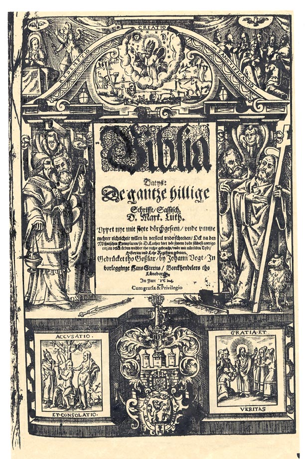 A photo of a page in 1614 Low German Bible from Boerne Public Library.